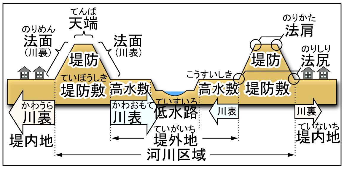 River's bank (Basic cut view) by Japanese